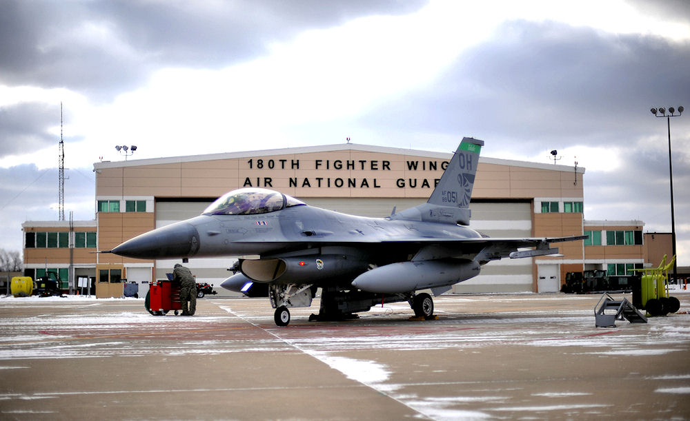 Gassed up with a biofuel, a U.S. Air Force F-16 Falcon from the 180th Fighter Wing ANG goes through prefight checks before taxing down the runway for take off on February 12, 2012 in Toledo, Ohio. (U.S. Air Force Photo by: MSgt Jeremy Lock) (Released)